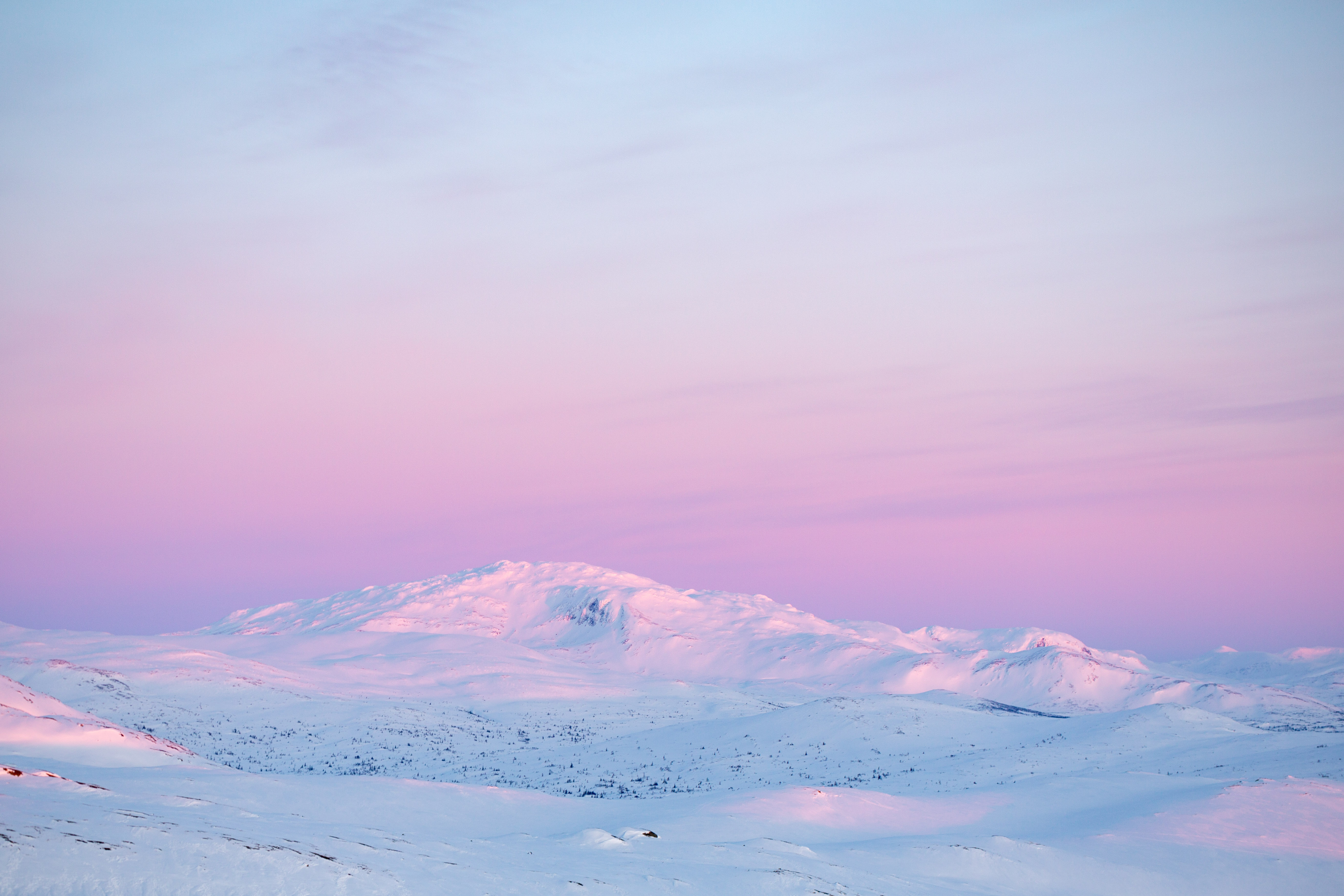 Fongen in Sylan, Norway in the sunset in winter. Picture taken from the top of the nearby Gråfjellet, right by the DNT cabin Prestøyhytta.